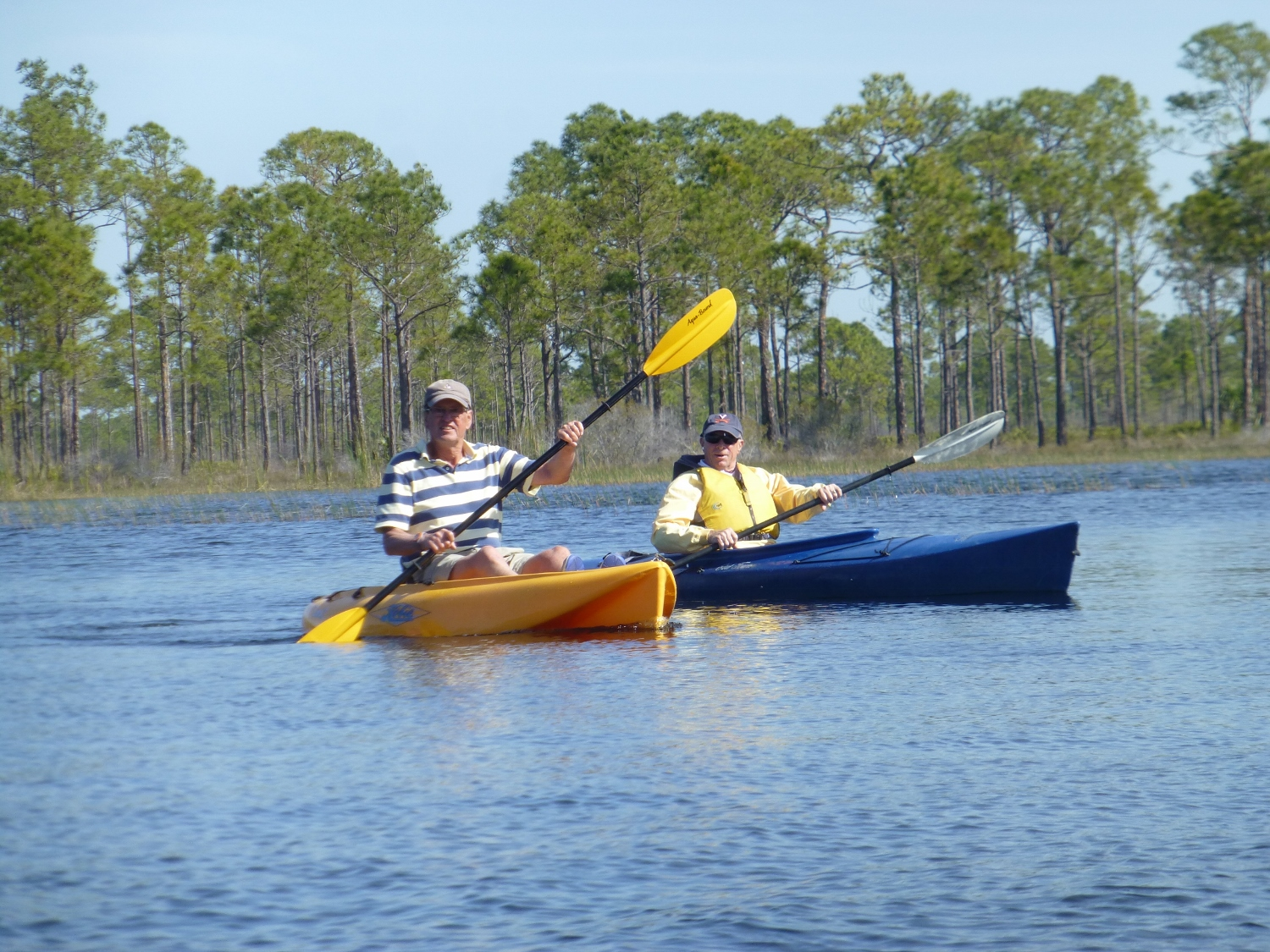 Kayak Paddle 3.7.16